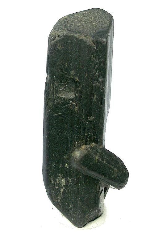 Aegirine Locality: Langesundsfjorden, Porsgrunn, Telemark, Norway (Locality at ) Size: 5.4 x 2.0 x 1.8 cm. This sharp, moderately lustrous, doubly terminated, black aegirine crystal is from the Type Locality area in Norway - Langesundsfjorden. The blocky crystal has an interesting, complex termination and the little sidecar crystal is a nice accent. This is a pristine, floater crystal. Classic, old-time material from the John Ydren Collection.